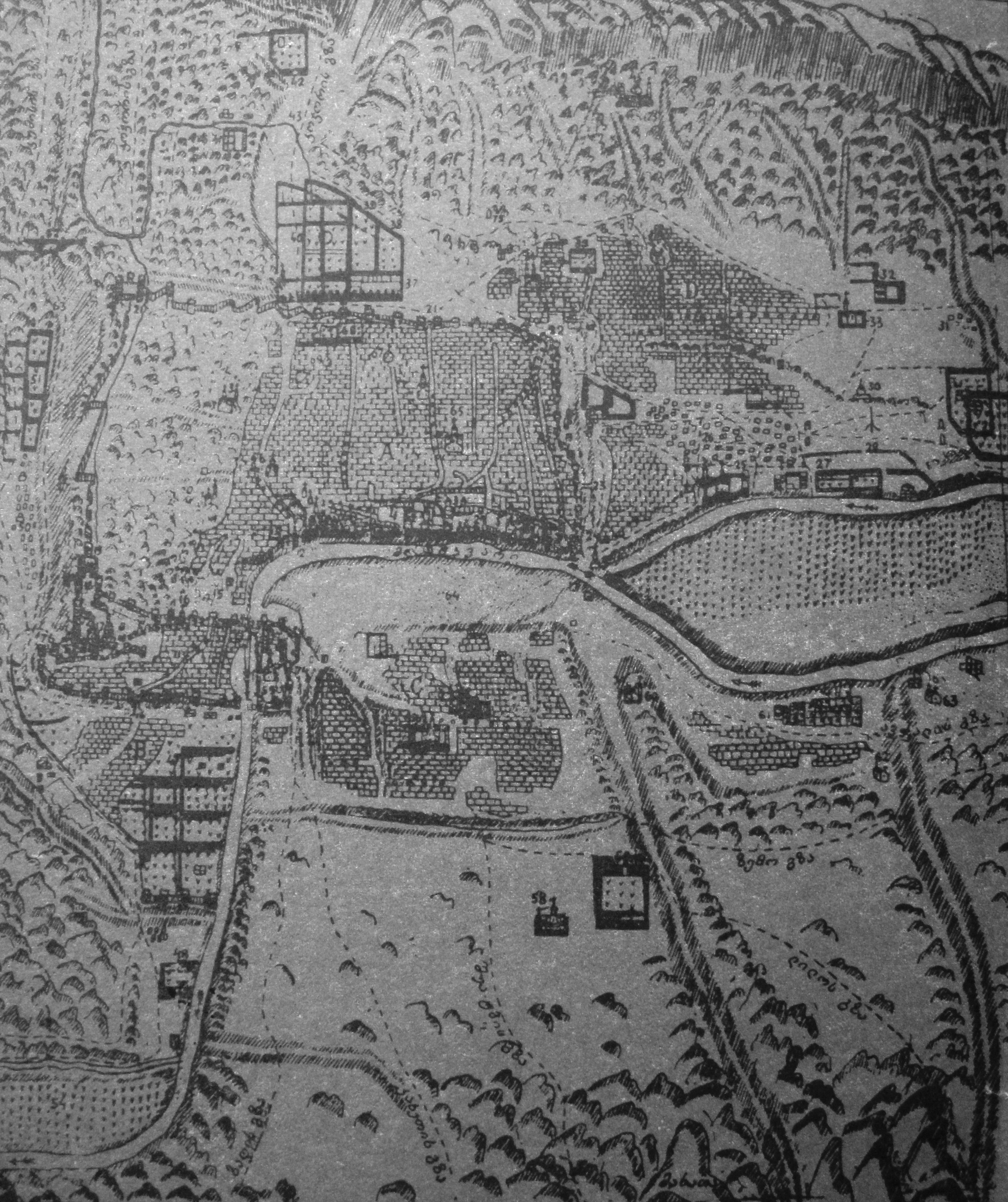 Map of Tbilisi inserted in the atlas of Georgia by Prince Vakhushti, 1735